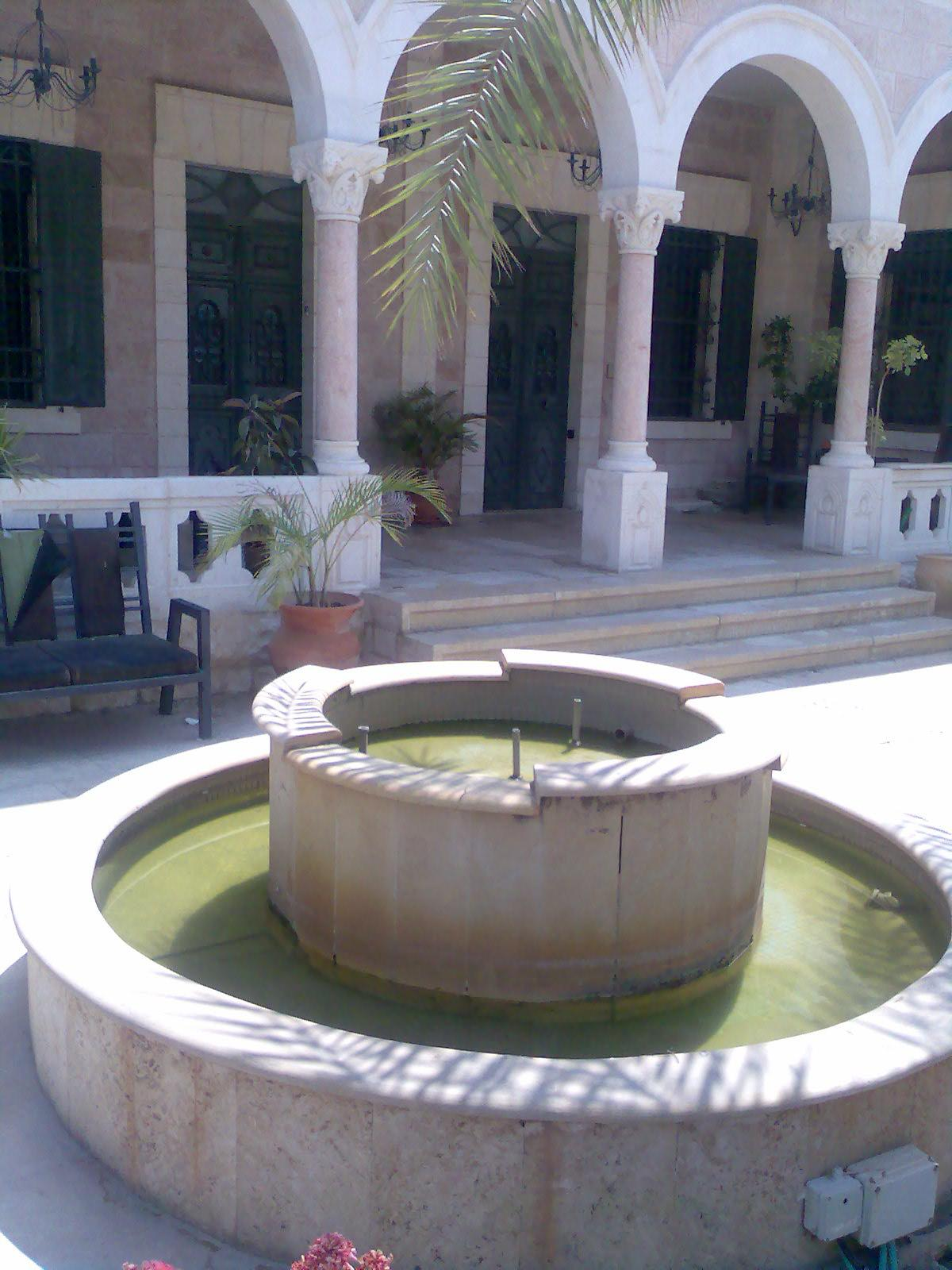 el-Aref's old villa, BeerSheba